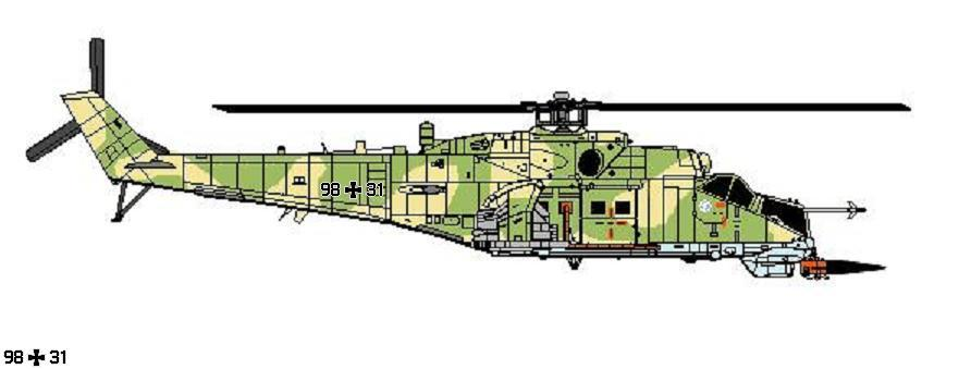 Modified Mi-24D '98+31' (ex-NVA '495' sold to Poland as '167' in January 1996) used by WTD 61 in Manching during 1994 for tests with the head of a Hawk missile in place of undernose gun. Unknown modification replaces rear cabin window on the starboard side with a pipe projecting from it.